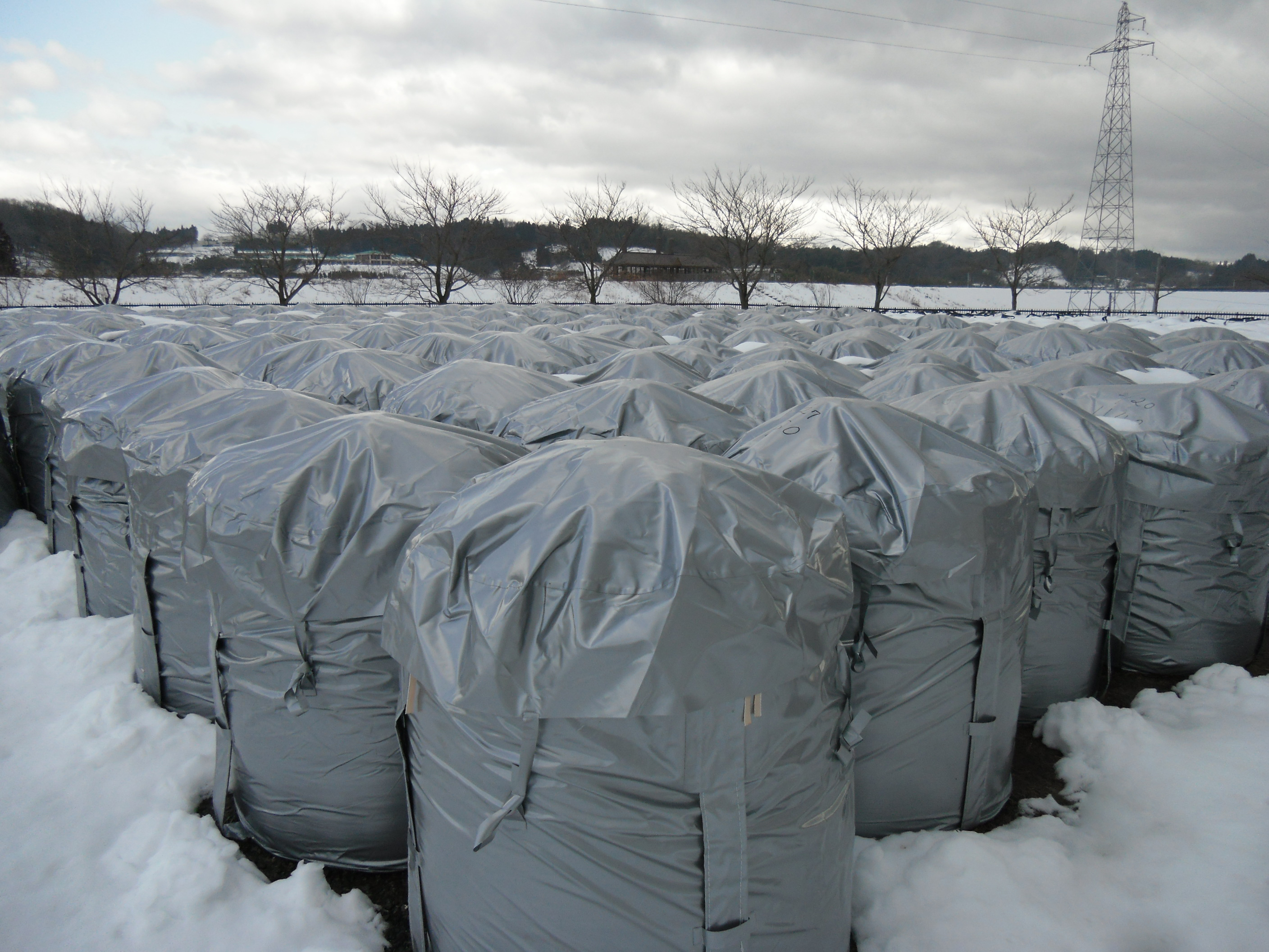 現地使用風景